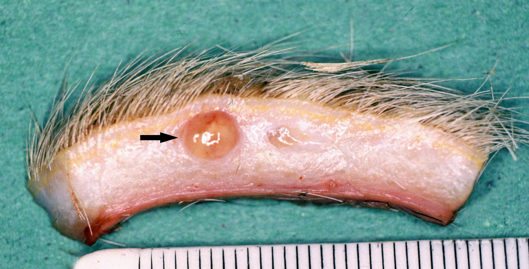 Section of skin of a cow in Britain showing a nodule formed by infestation with Demodex mites.